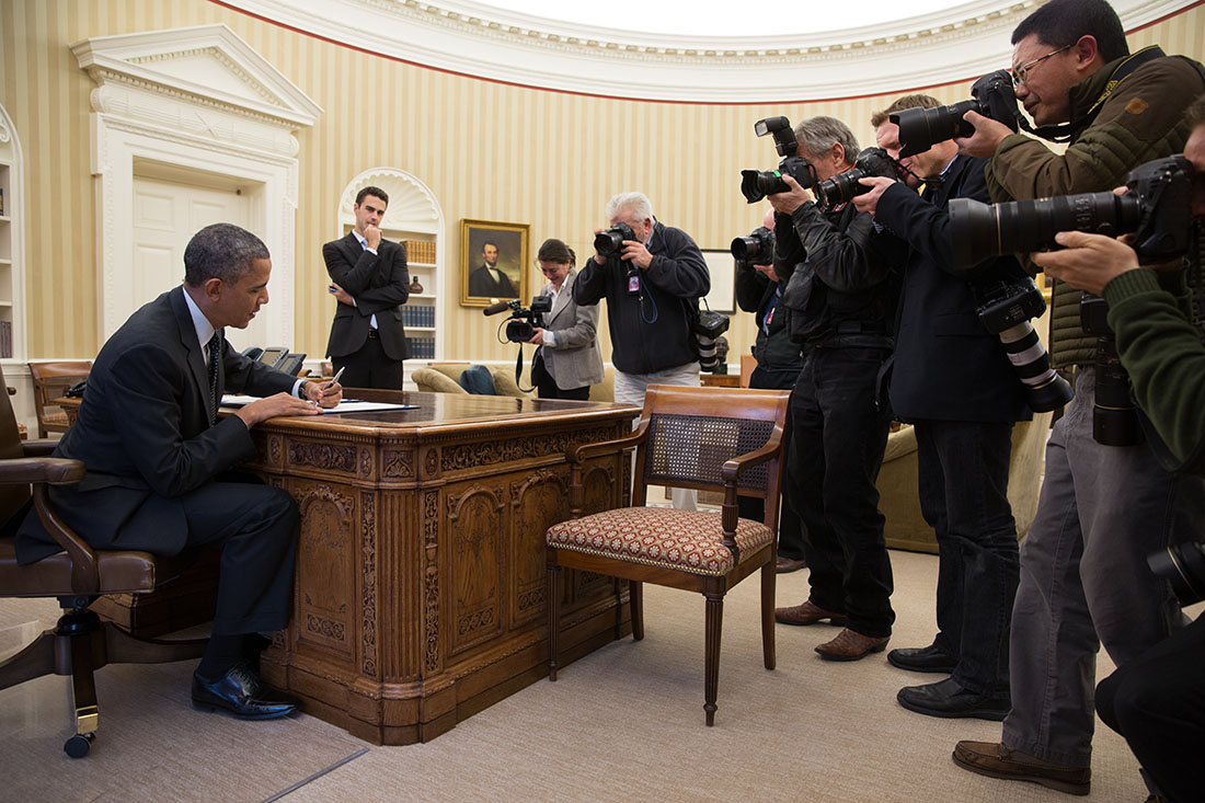 Photojournalists photograph United States President Barack Obama as he signs H.R. 2747: Streamlining Claims for Federal Contractor Employees Act, and S. 893: The Veterans' Compensation Cost-of-Living Adjustments Act of 2013, in the Oval Office on 21 November 2013.